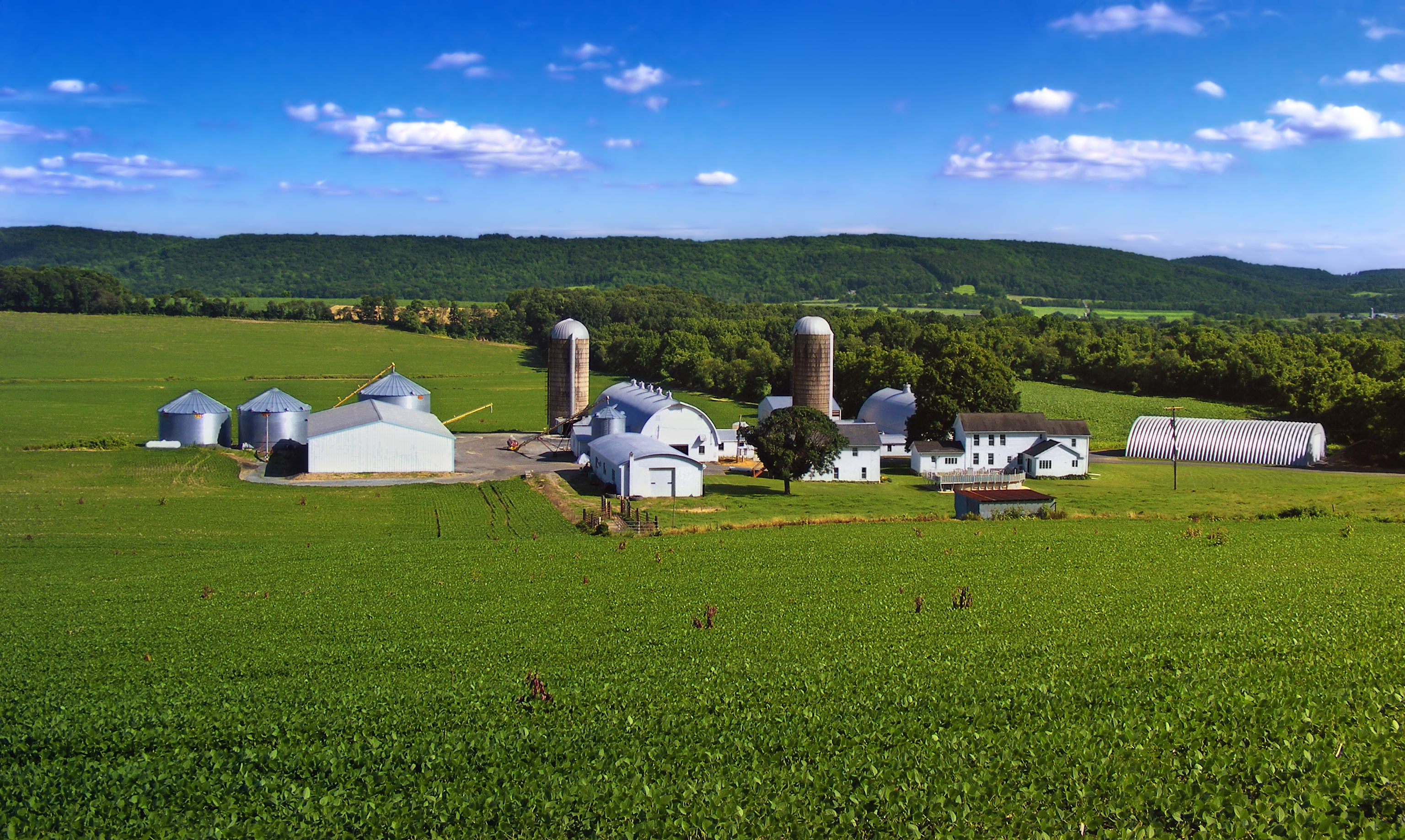 Farmstead, Franklin Township, Warren County.